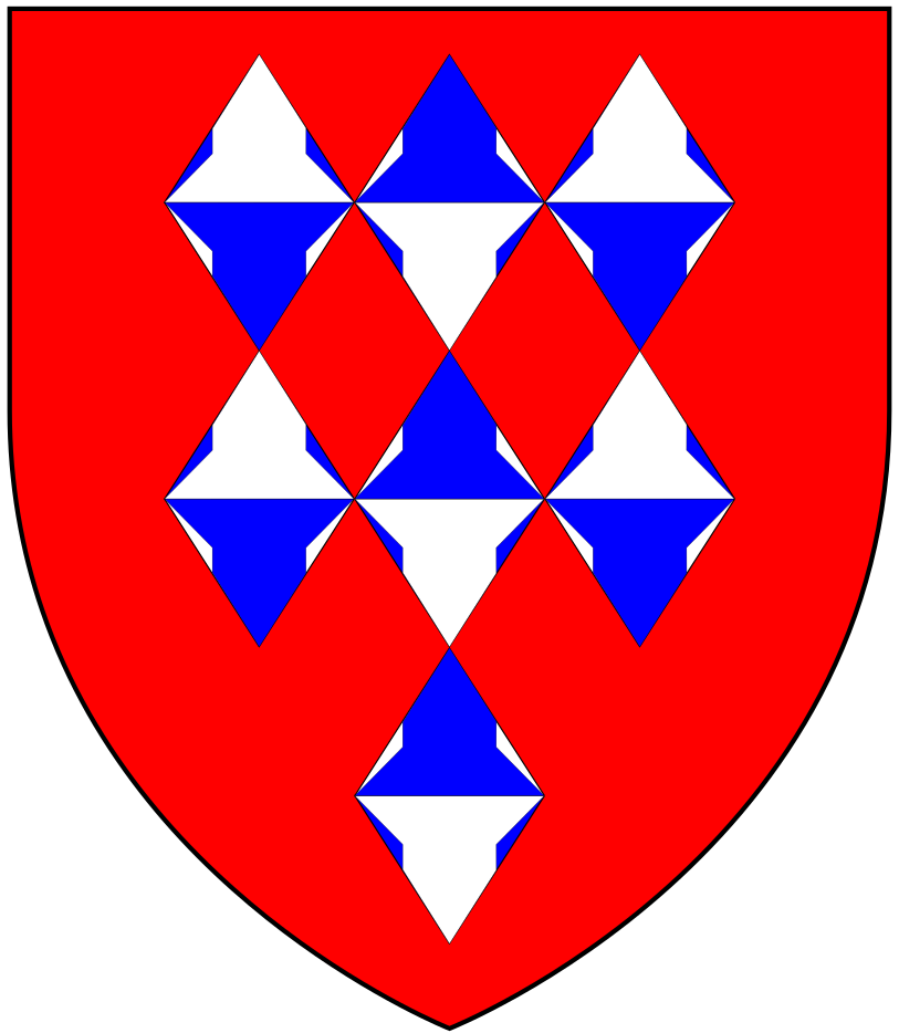 Arms of Guise of Elmore, Gloucestershire (Guise baronets): Gules, seven lozenges conjoined vairé 3,3 and 1.[1] As displayed above front door of Elmore Court.